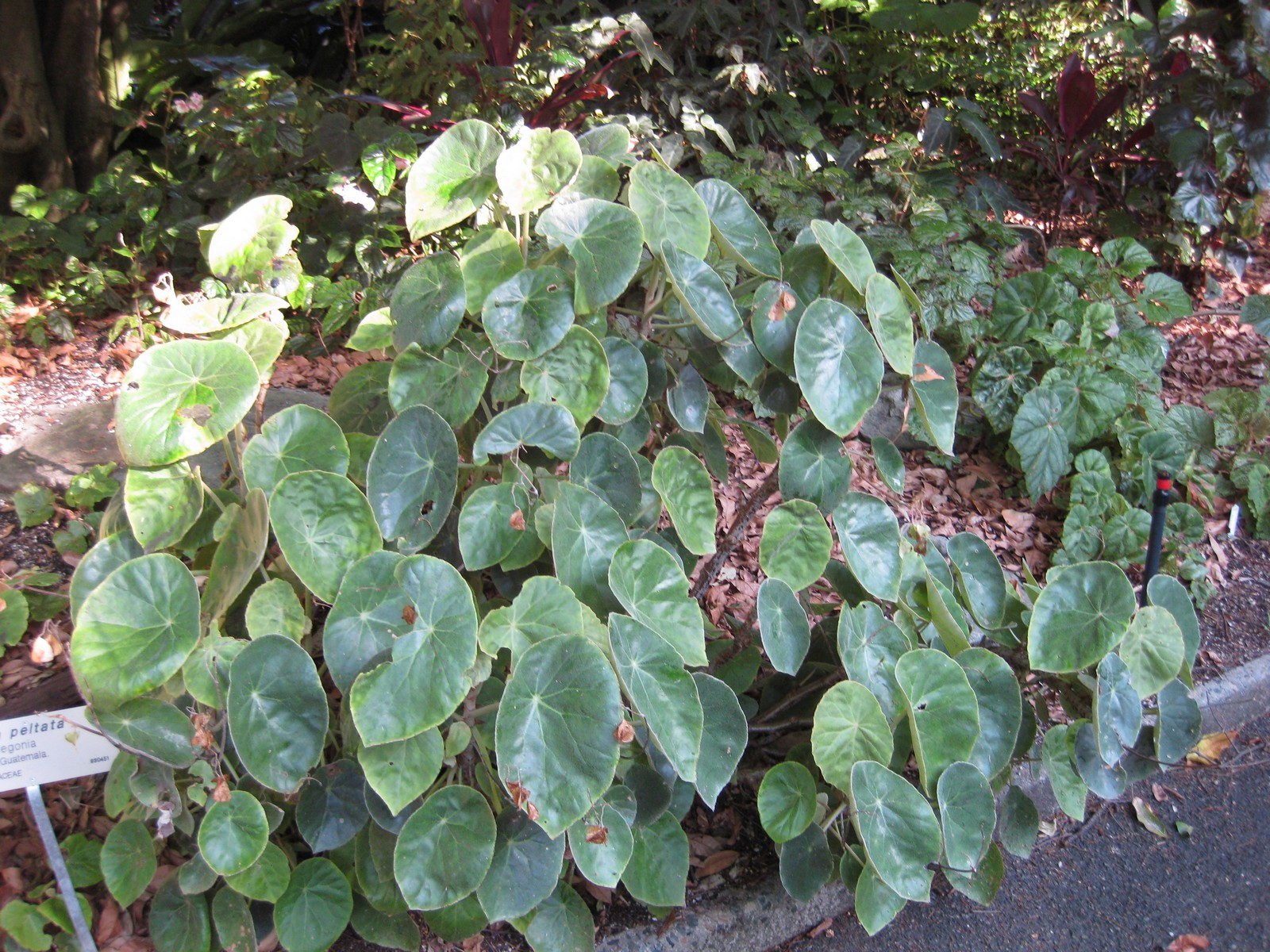 Photographed at the Royal Botanic Gardens Sydney (Australia) in December